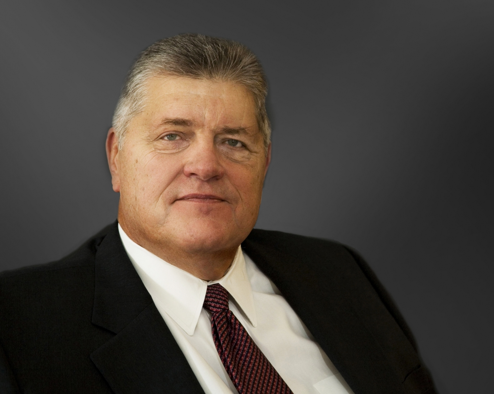 Dr. Blaine Nye, PhD, current head shot